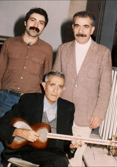 Jamshid Andalibi (Ney Player), Nasrollah Nassehpoor, VocalistGholamhossein Bikchekhani, (Tar Player). 1984